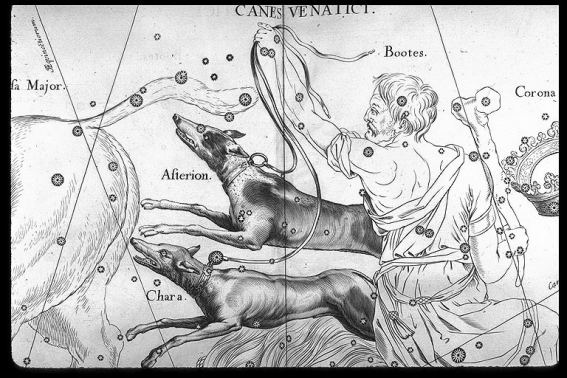 The Canes Venatici constellation from Uranographia by Johannes Hevelius. The view is mirrored following the tradition of celestial globes, showing the celestial sphere in a view from "ouside"